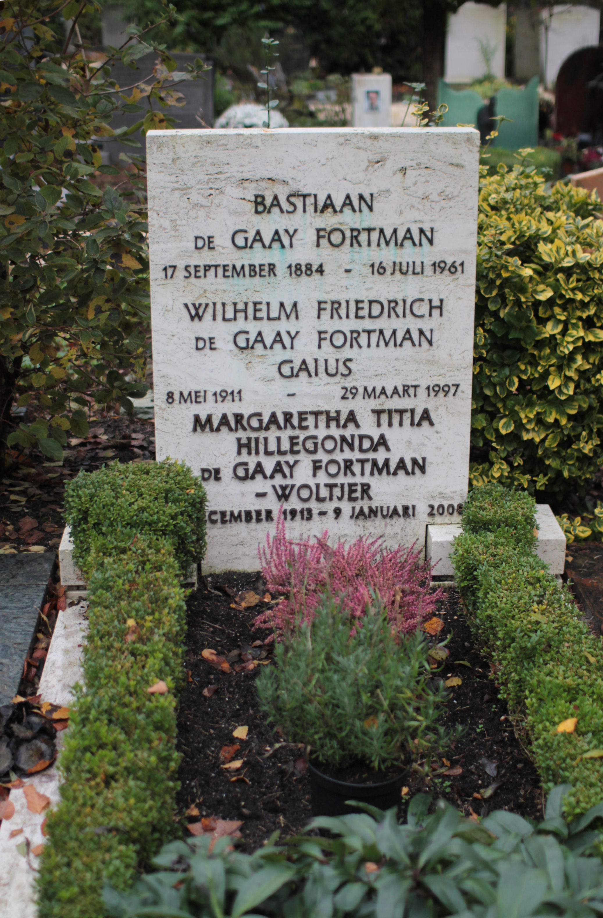 Zorgvlied cemetery, grave of the Gaay Fortman family